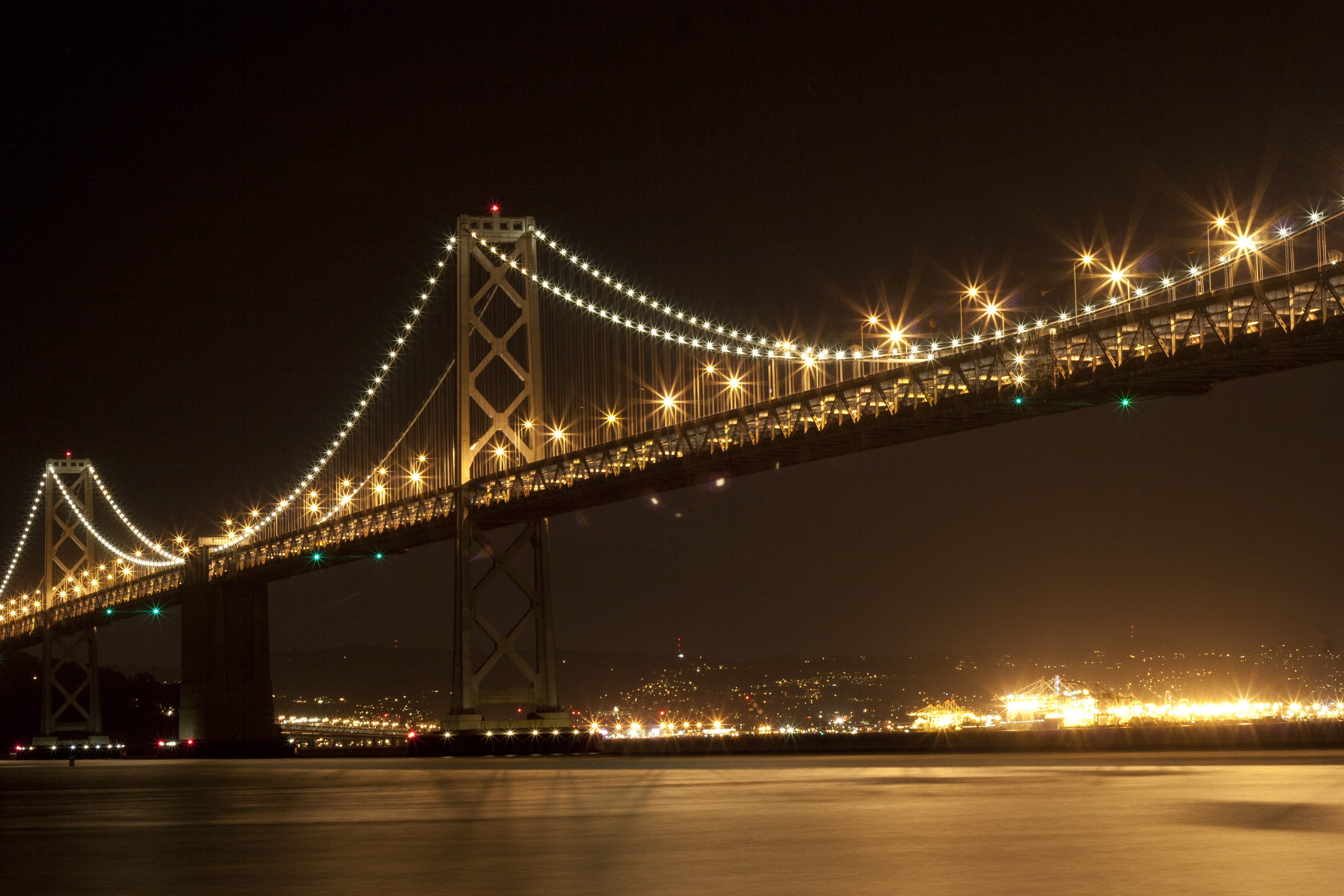 This is the view of the Bay Bridge at night looking east from Rincon Park in San Francisco along the Embarcadero. Blog post link for more information about the picture